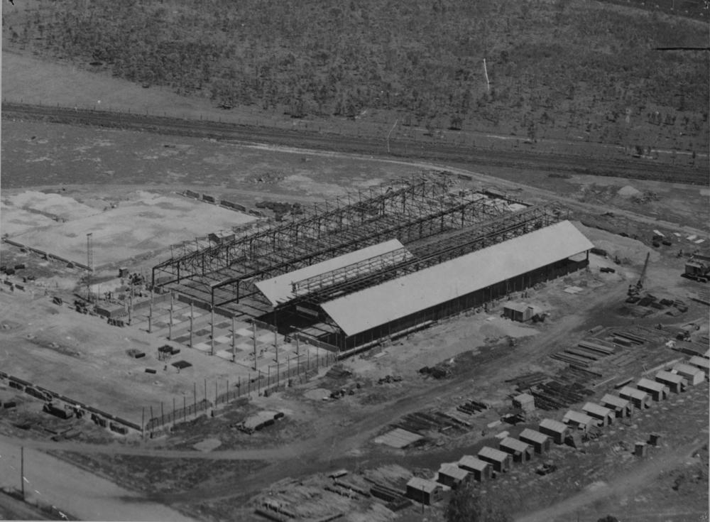 Creator: Unidentified; Queensland Newspapers Ltd. Location: Northgate, Brisbane, Queensland Description: Queensland Tropical Fruit Products Pineapple Canning Factory under construction an Northgate on 18 December 1946 (Golden Circle). View this page at the State Library of Queensland: Information about State Library of Queensland’s collection